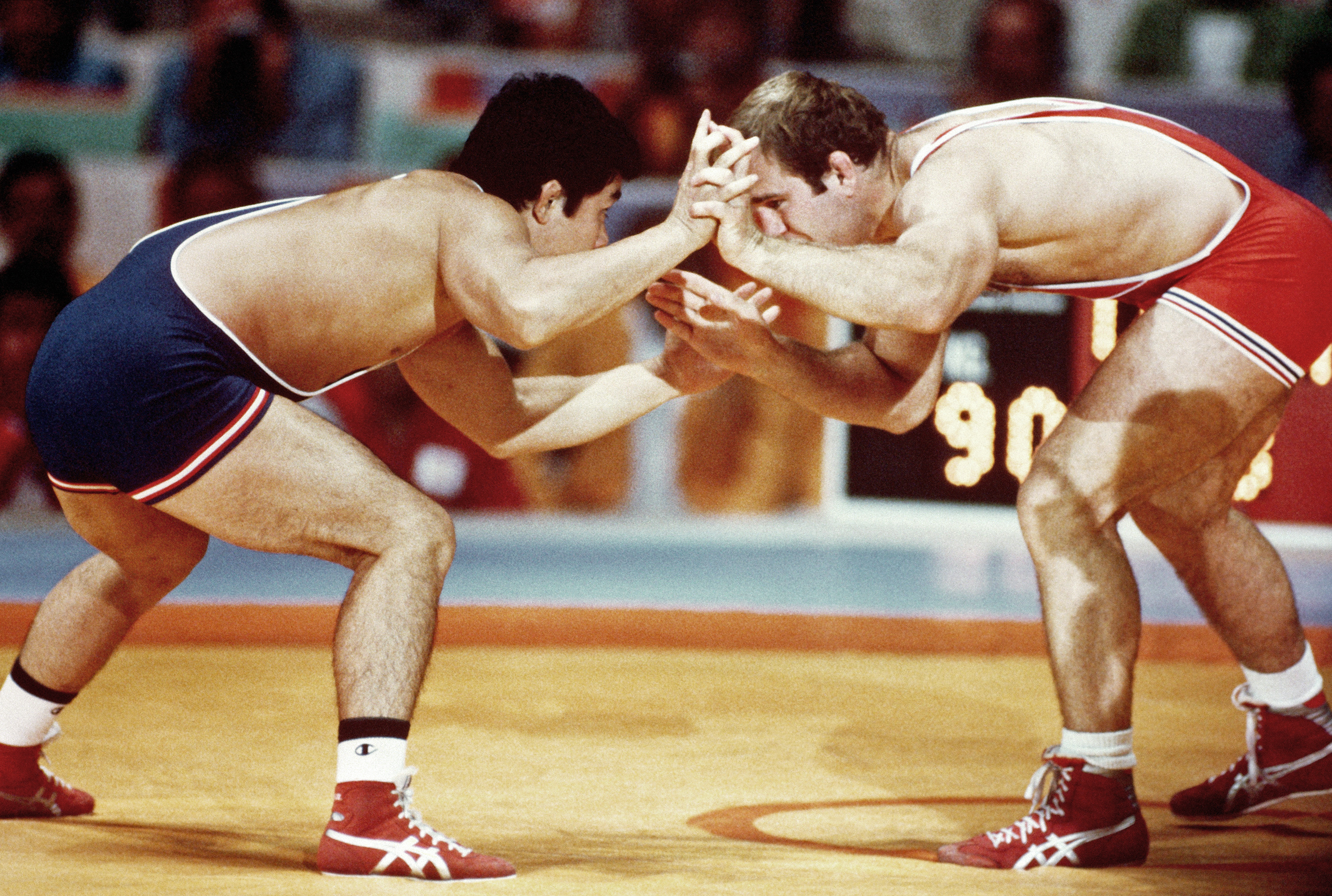 Ed Banach, in red, wrestles Akira Ota of Japan during the 1984 Summer Olympics. Banach is the twin brother of Army 2nd Lieutenant Ludwig D. Banach, also a member of the freestyle wrestling team. (Released to Public)